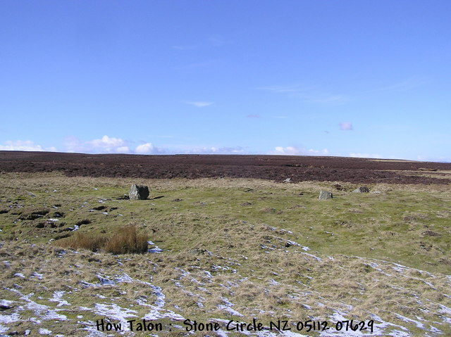 How Tallon : Stone Circle. Situated at the head of Osmaril Gill, the circle is approximately 12m in diameter and is composed of 7 sandstone blocks all of which look like they've been toppled. The two largest stones are in the north & south. There is a possible outlying stone to the west. The area has suffered from a degree of subsidence leaving the circle on uneven ground. Some of the stones are cupmarked although there are also 'erosion cups'. One of the stones has a faintly carved cross upon it.